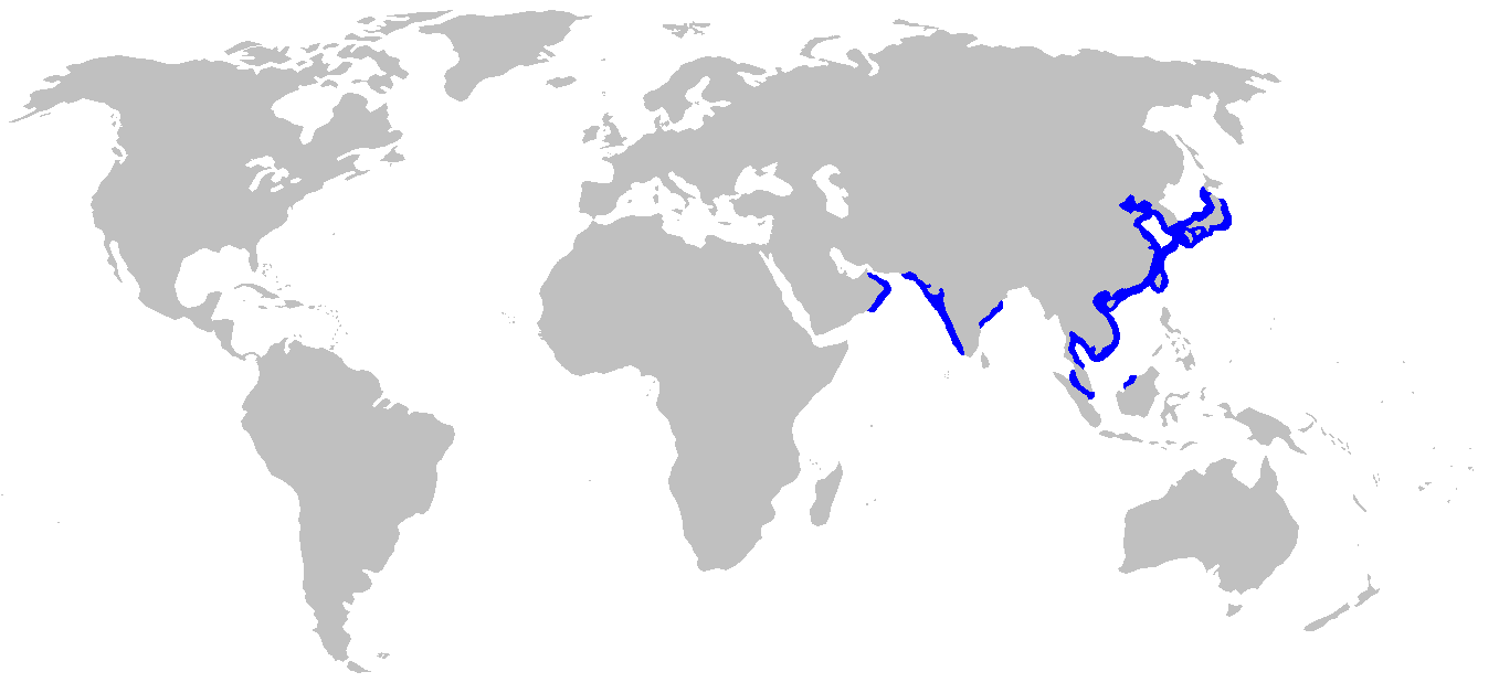 Distribution of Narke dipterygia. Based on [1]